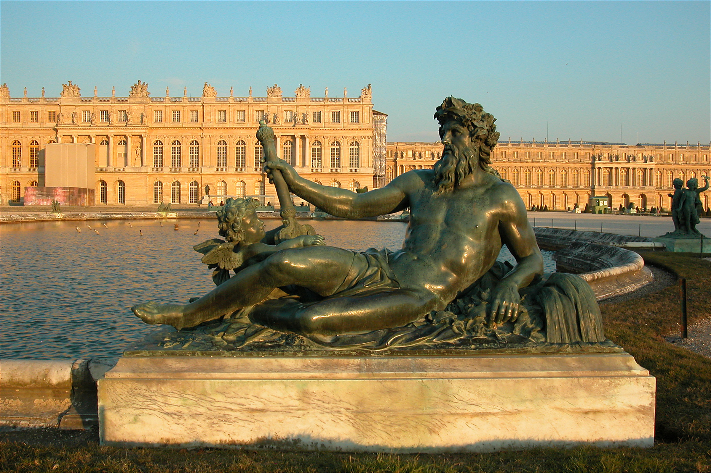 Jean-Baptiste Tuby (French, 1635-1700): Le Rhône, bronze sculpture founded by the brothers Keller, placed at the "Bassin du Midi", Parc du Château in Versailles, France.